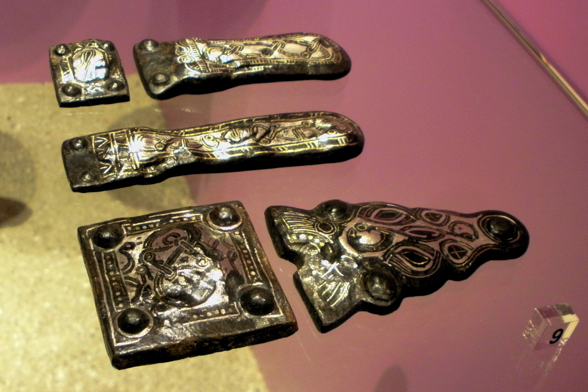 Maaseik, Belgium. 7th-century Merovingian buckles in the Regionaal Archeologisch Museum (RAM), the local museum of history and archeology.